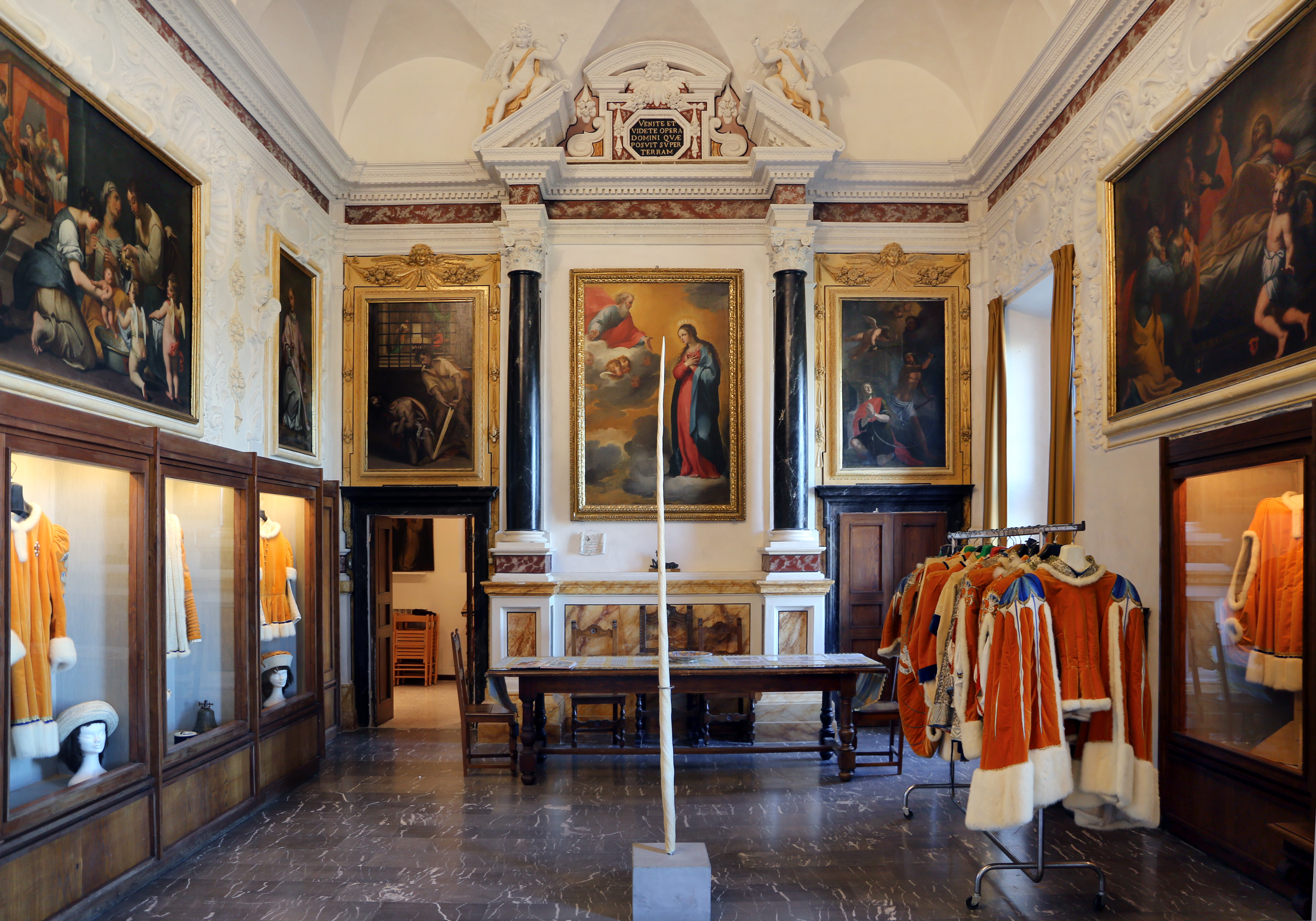 Museo della Contrada del Leocorno